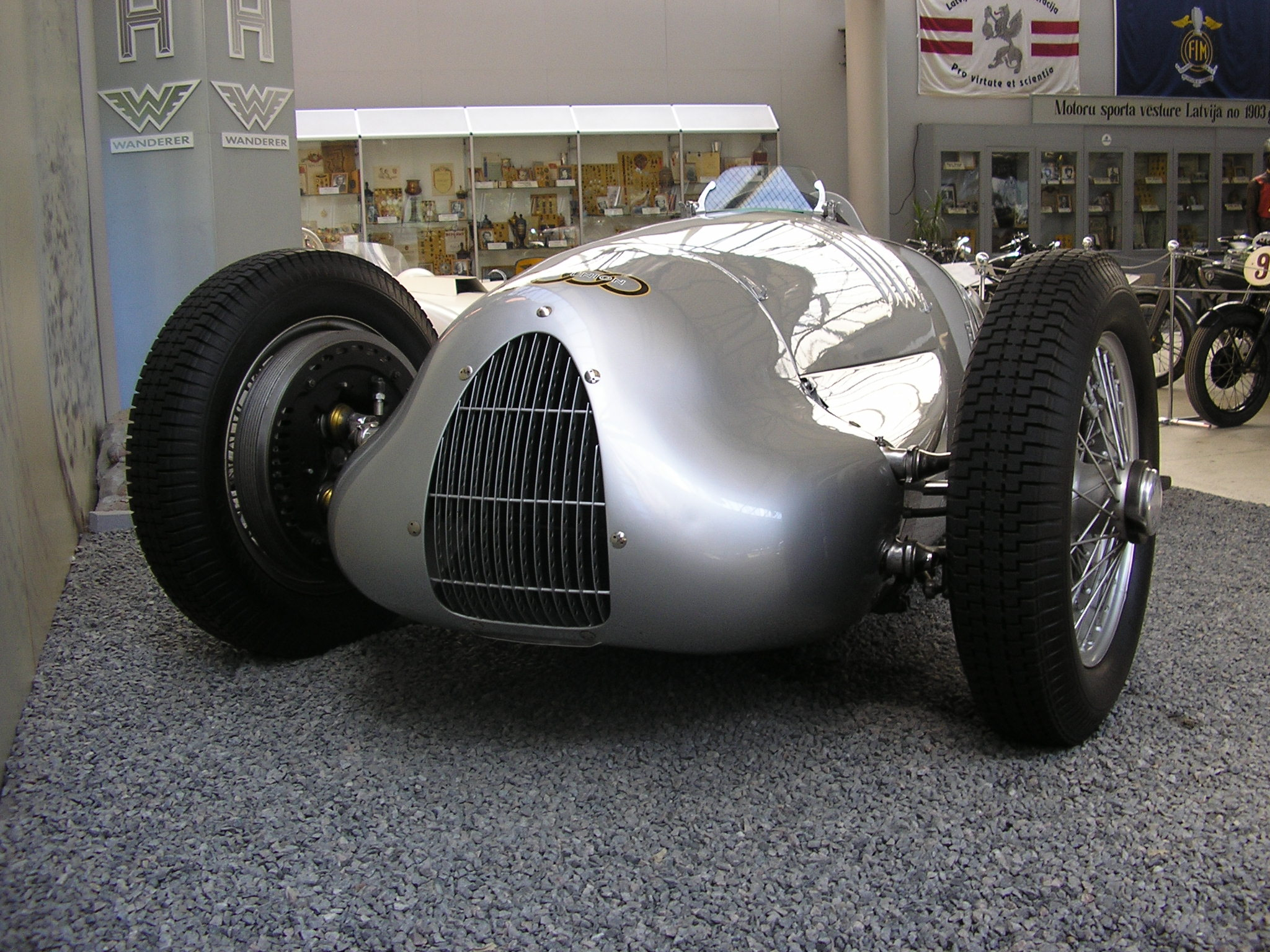 1938 Auto-Union V16 type C/D replica. This original car was purpose-bult for hillclimbing competitions. The construction was headed by Dr. Ing. Robert Eberan von Eberhorst. The car was built on a type D chassis and powered by a 520 hp supercharged 6005 cc V16 engine designed by Dr. Ferdinand Porsche. Fuel consumption was 6 litres/10 km. In 1939 Hans. Struck drove the car to victory at La Turbie in France and came second at the Grosslockner track in Austria. H. P. Müller was successful both at Grosslockner and on mountain roads in Kohlensberg aoutside Vienna. In 1945 the car was taken from Auto-Union in Zwickau to Moscow, to study it's technology. In 1976 it was at the ZIL factory in Moscow, and scheduled to be cut up for scrap metal, when Victors Kulbergs, president of the Antique Automobile Club of Latvia, acquired it as the first exhibit for the Riga Motor Museum. Audi later bought the car in exchange for money and an exact replica. In England in 1997 Crosthwhaite & Gardiner started work on restoring the original and creating the replica. The completed replica was unveiled in 2007 at the Goodwood Festival of Speed.